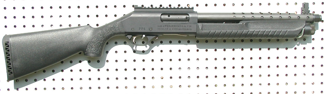 Heckler & Koch FABARM FP6 Entry Tactical short-barreled 12 ga. shotgun (Class III) manufactured by FABARM and marketed by Heckler & Koch 14" barrel, 33.75" overall length